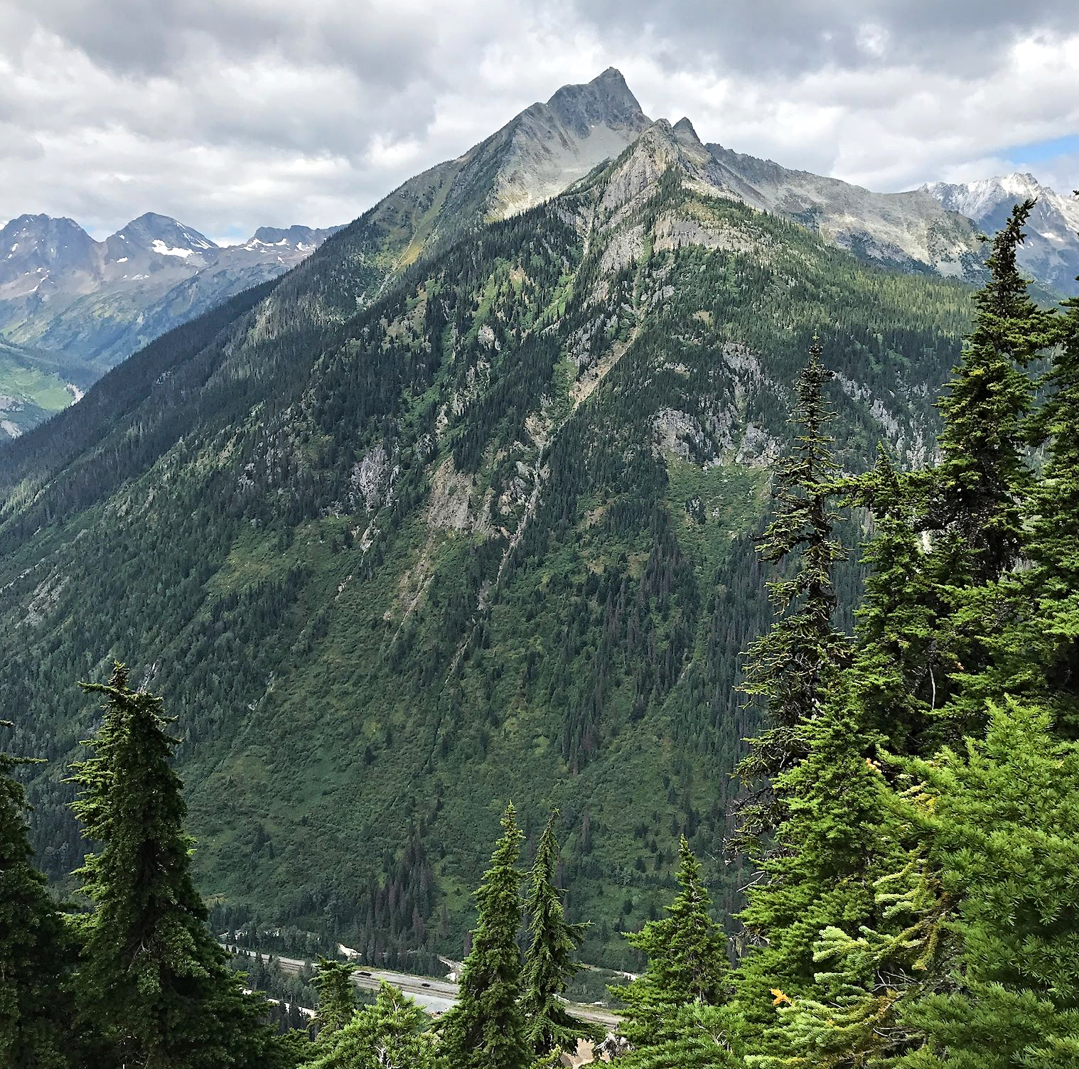 Cheops Mountain from near Marion Lake